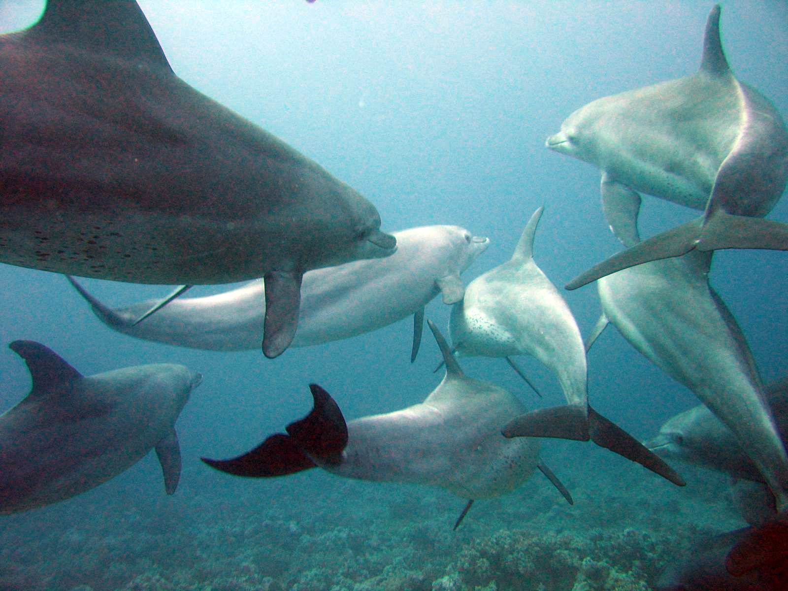 Indo-Pacific Bottlenose Dolphin, Tursiops aduncus. Red Sea.